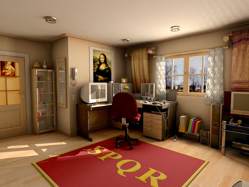 Mental ray for Maya rendering test! Maya Nurbs and Poly Modeling, Mental Ray Area Lights, Image Based Lighting and Final Gather! Ambient Occlusion and final output to EXR format! Modeling, texturing and rendering by Alex Sandri. Keywords: 3d, Autodesk, Maya, Cg, Digital, Art, Architecture, Visualization, Bangkok, Thailand, Koh, Samui, Alex, Sandri, Graphics, Animations, Rendering, Mental Ray 3D Autodesk Maya & Mental ray Architectural Visualizations.